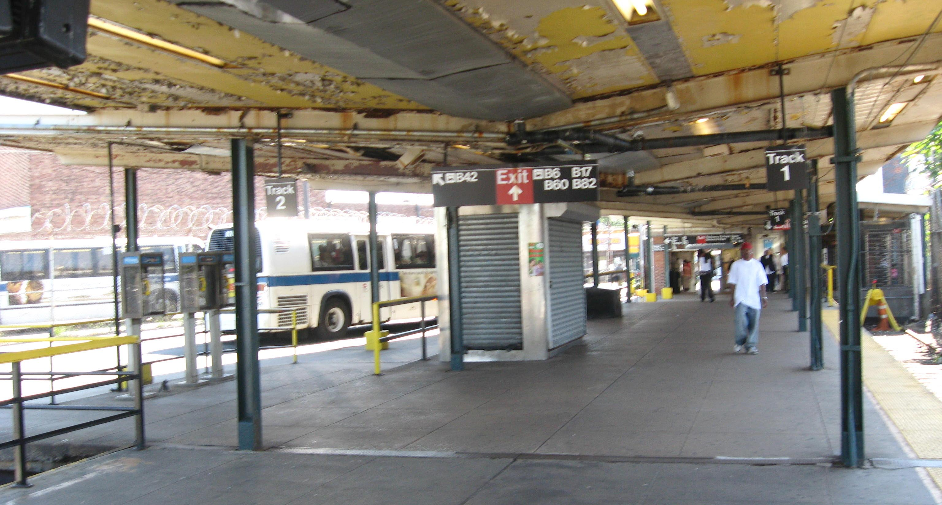 Looking south at Canarsie – Rockaway Parkway (BMT Canarsie Line) connection to B42 and other buses on a sunny midday